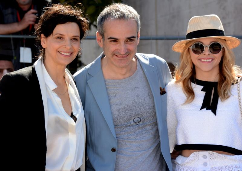 Juliette Binoche, Olivier Assayas and Chloe Grace Moretz promoting "Clouds of Sils Maria" at the Cannes film festival